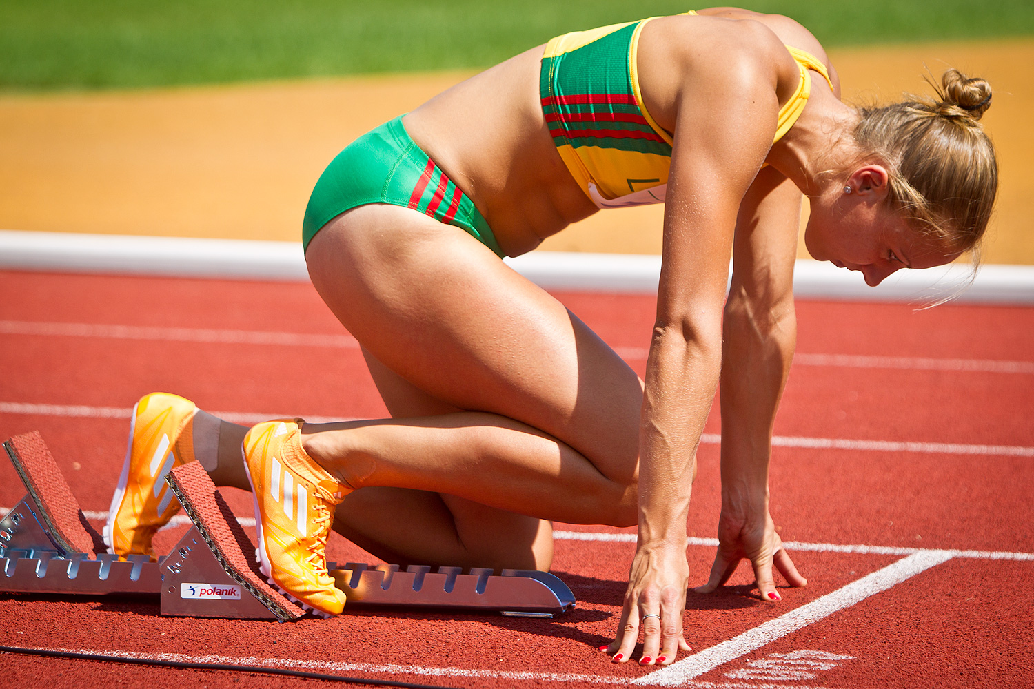 Egle Staisiunaite at 2014 Lithuanian Championships in Athletics